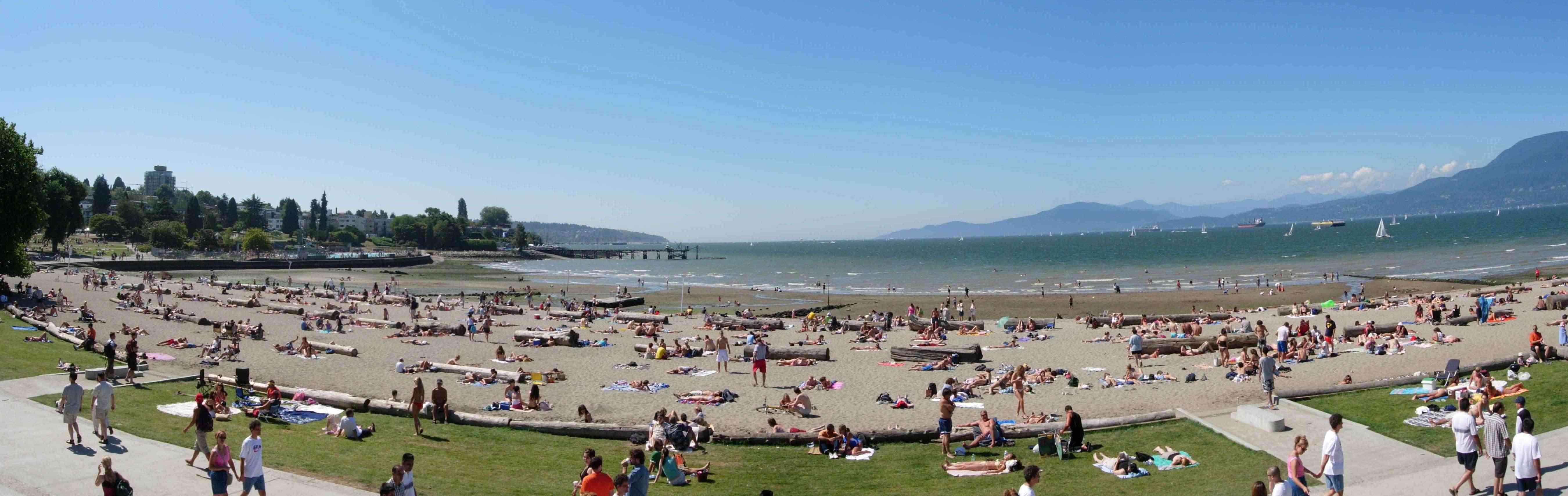 Robert Werner Vancouver, BC